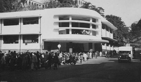 The 2nd generation of Wanchai Market was built in 1937, had been in service until 2008, the year when a new market was opened. Later the building was redeveloped into a residential building, with only the front facade of the market was preserved.